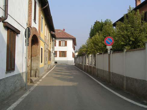 Way near "Curta Granda" in Castellazzo de' Stampi, Corbetta (MI) - Italy